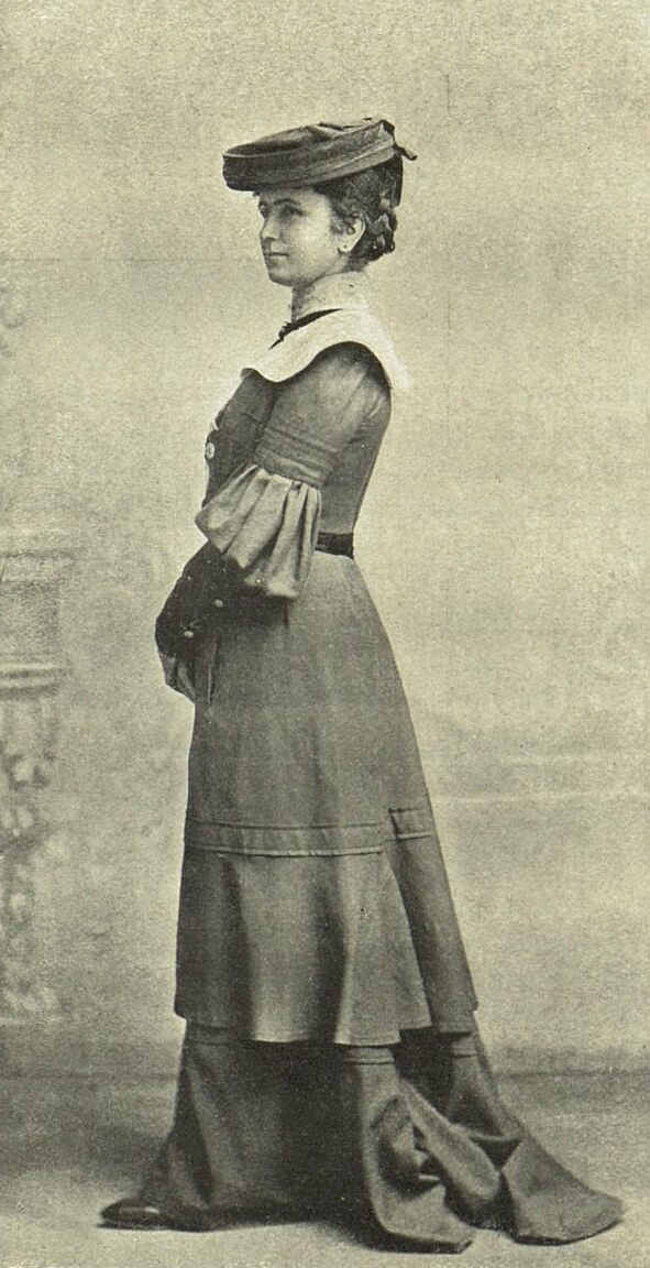 Gabriela Preissova, Czech writer, 1905